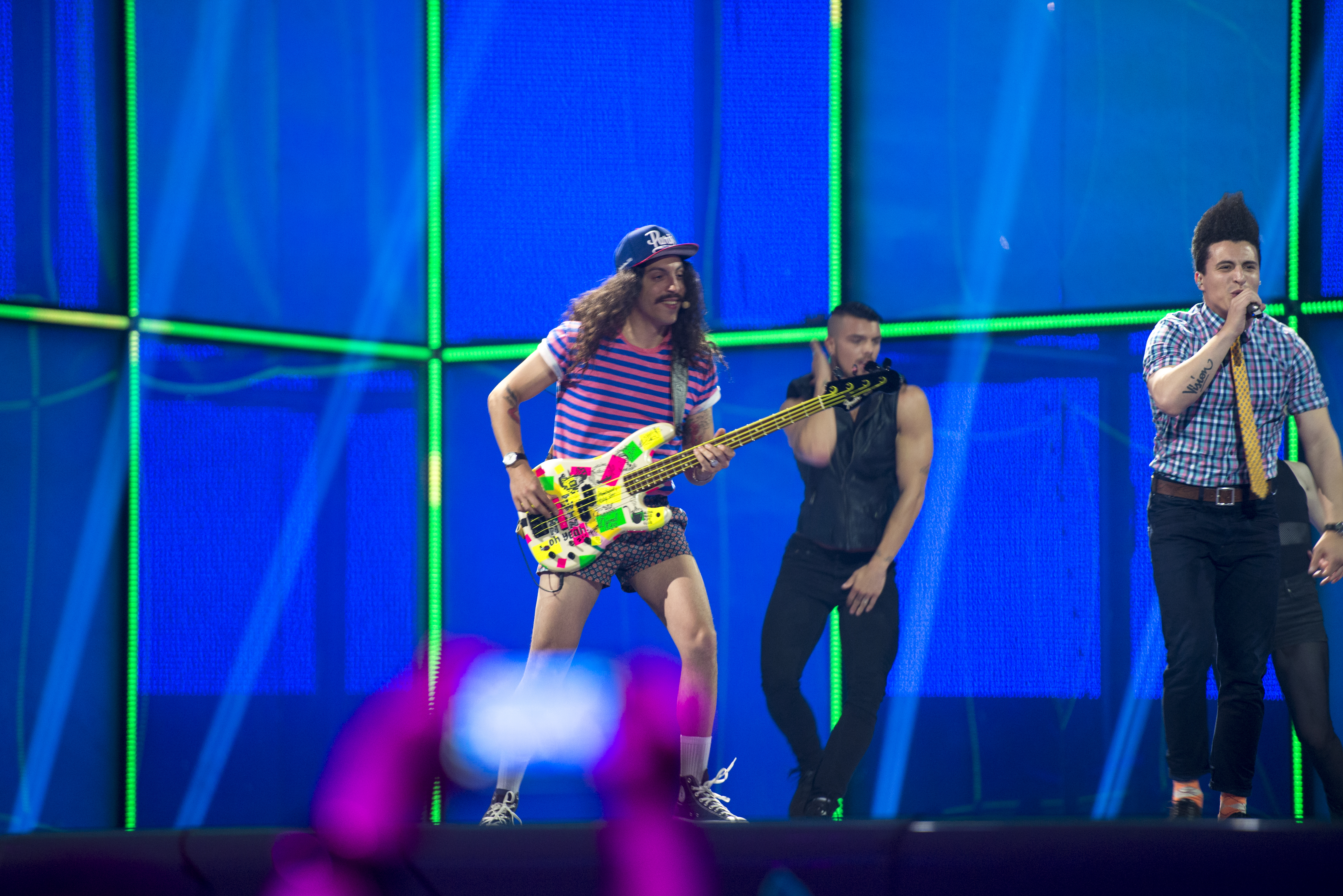 Twin Twin representing France with the song "Moustache" during the first dress rehearsal of the final of the Eurovision Song Contest 2014 Copenhagen. (Help translate this text)